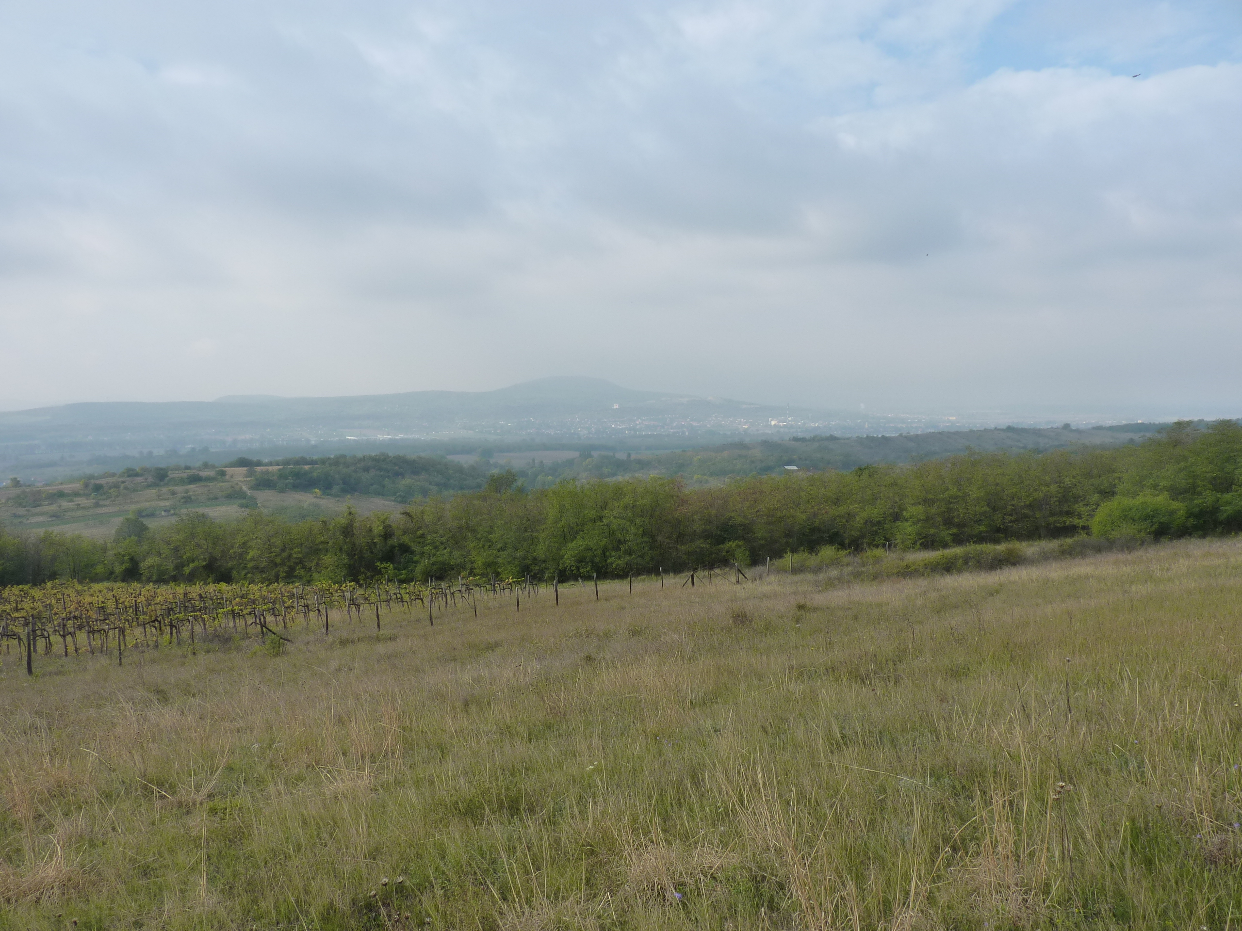 View of Kesztölc vineyards, Dorog and Nagy-Gete